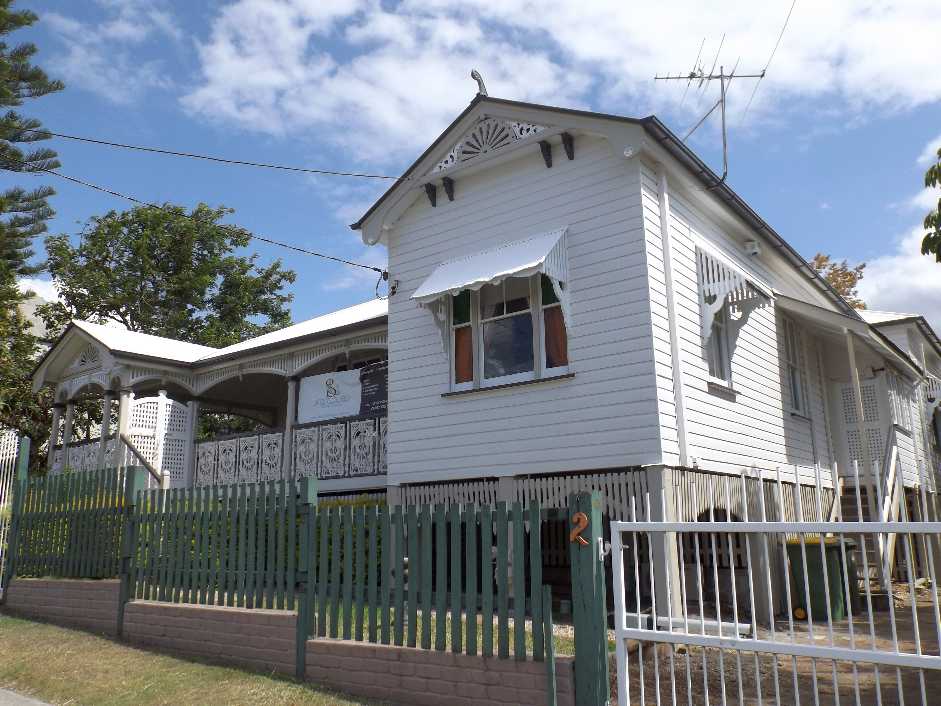 Photo of Idavine residence at West Ipswich, Queensland, Australia.